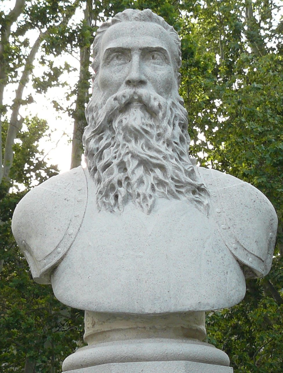 Krsto Frankopan of Ozalj (1482-1527) - monument in Zagreb.